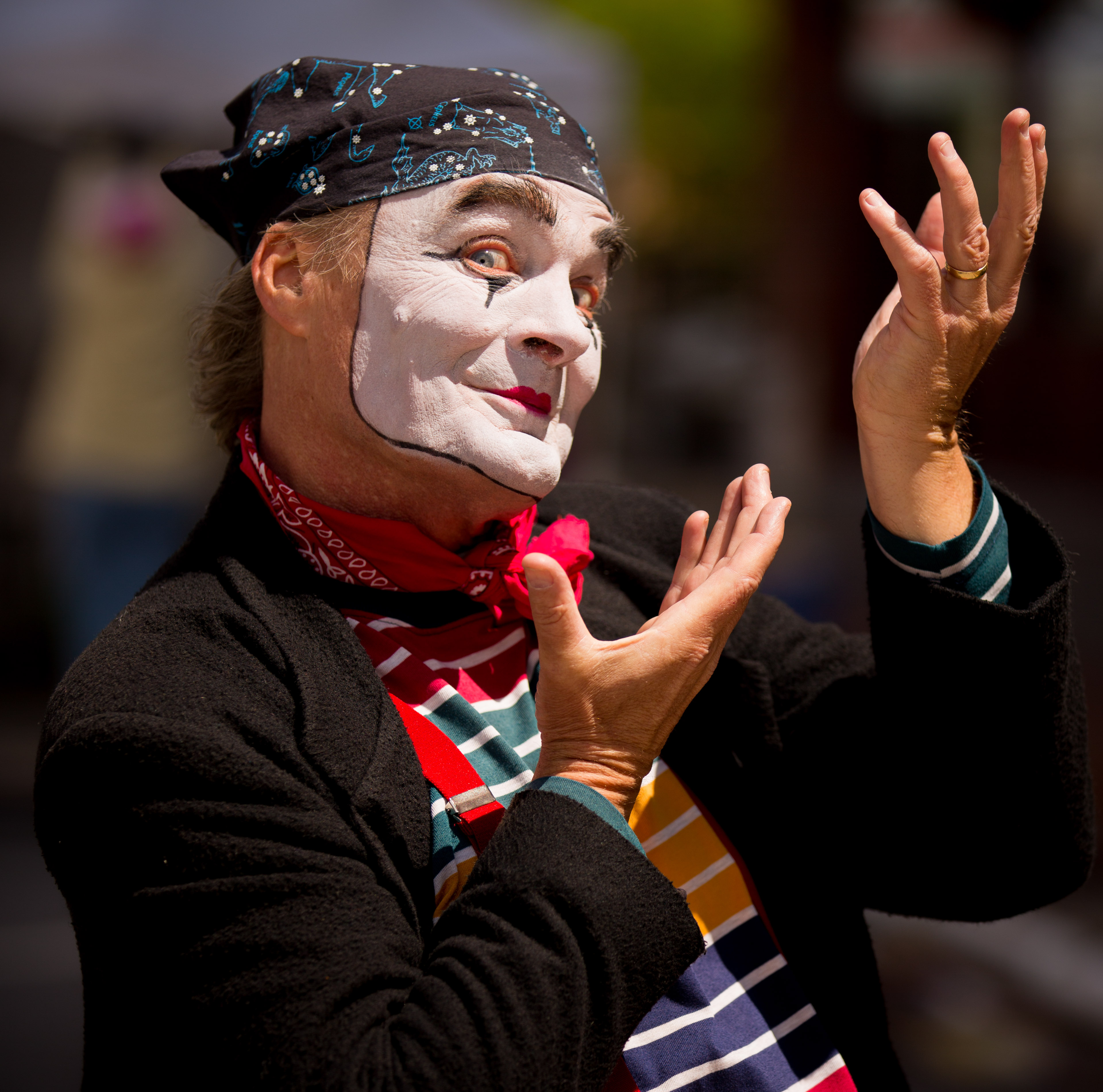 Photograph of a mime performing in the street